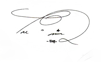 assinatura do taemin